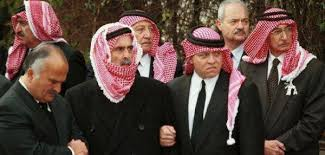 Death of Hussein of Jordan